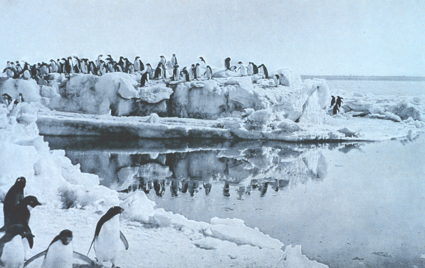 Adélie Penguins on the ice-foot at Cape Adare in the Antarctic. Photo taken in 1911 or 1912 by George Murray Levick, a member of Robert Scott's Terra Nova Expedition. Published in Scott's Last Expedition (1913). Dodd, Mead, and Company. New York. Volume II. Page 87. Also published in Levick, G. Murray (1914). Antarctic Penguins: a study of their social habits. New York: McBride Nast and Company.